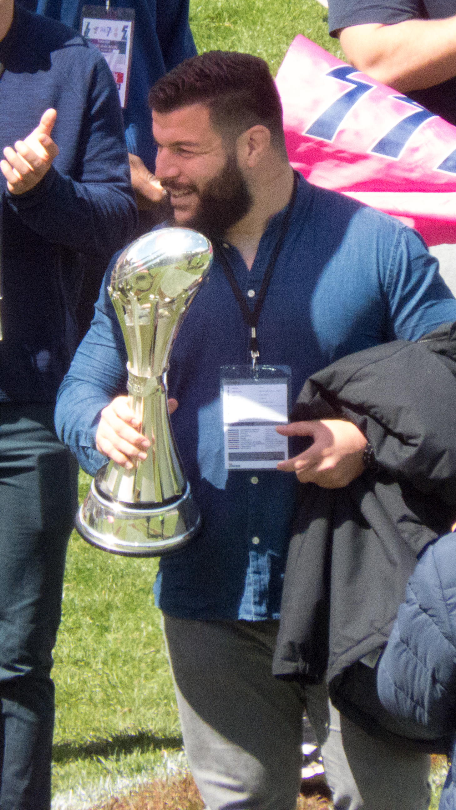 Paris Sevens 2017 — 14 May 2017, stade Jean-Bouin. Match between: South Africa — New Zealand